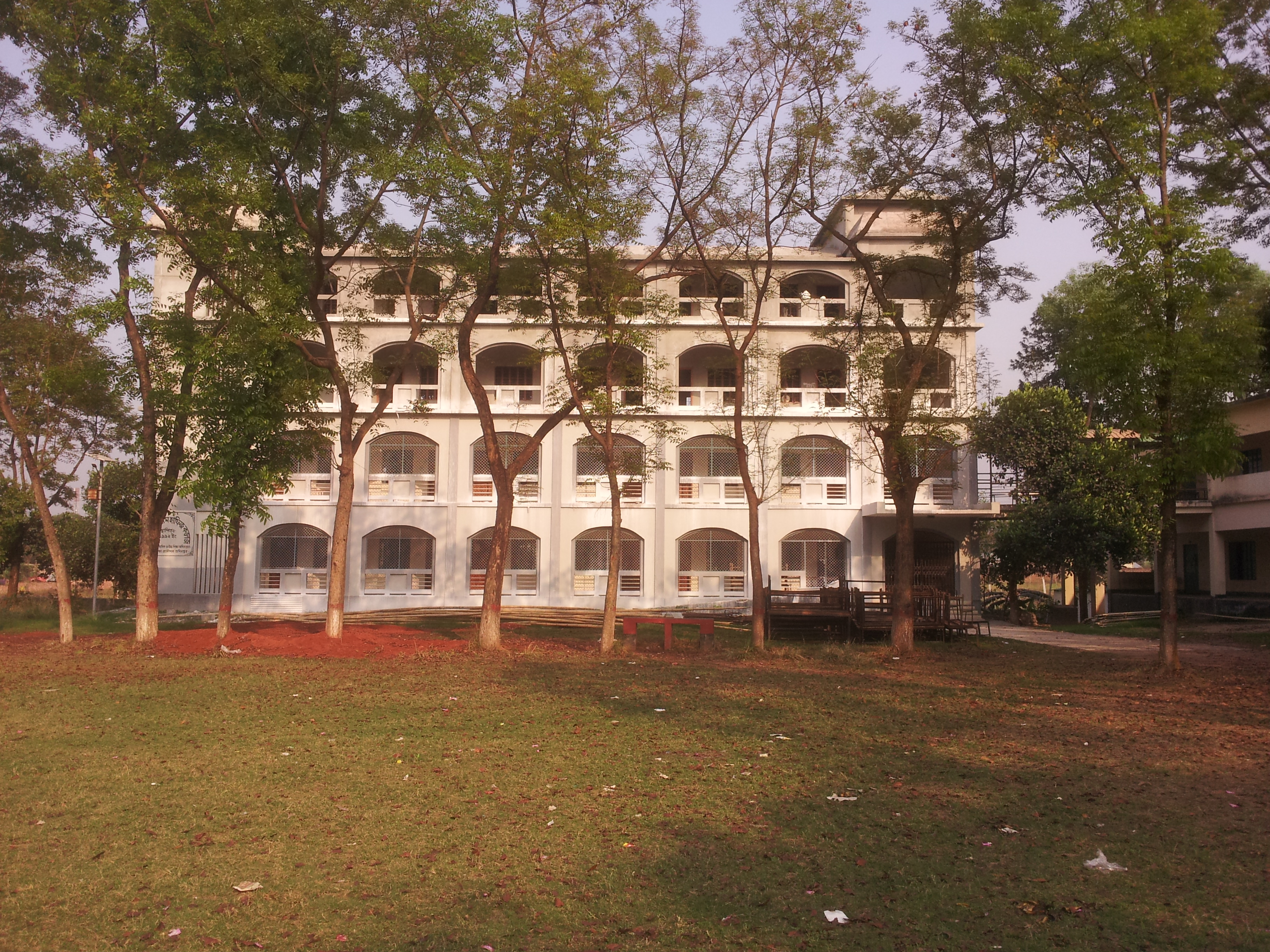 Academic Building of Mirza Golam Hafiz College, Savar, Dhaka.